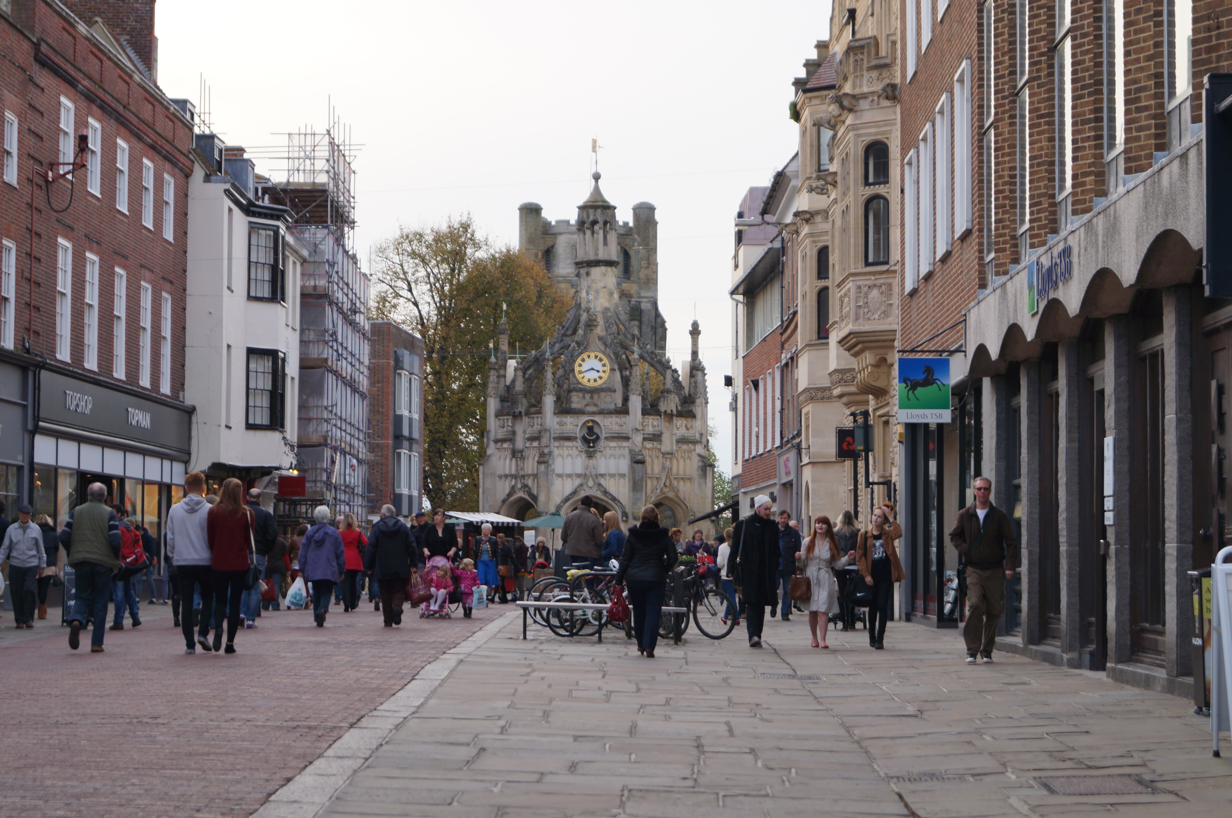 Chichester Cross.